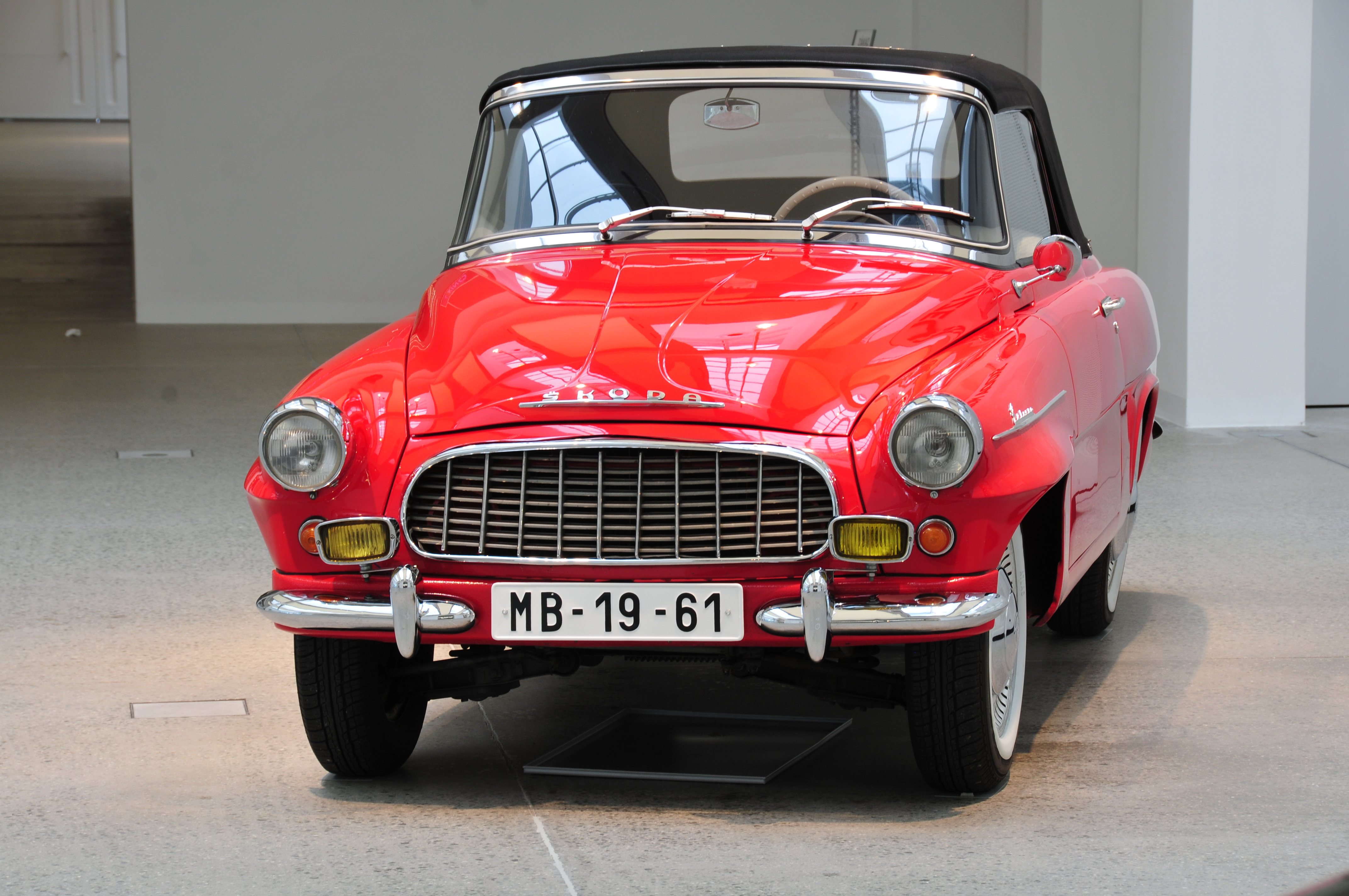 Škoda Felicia (1961); Front view